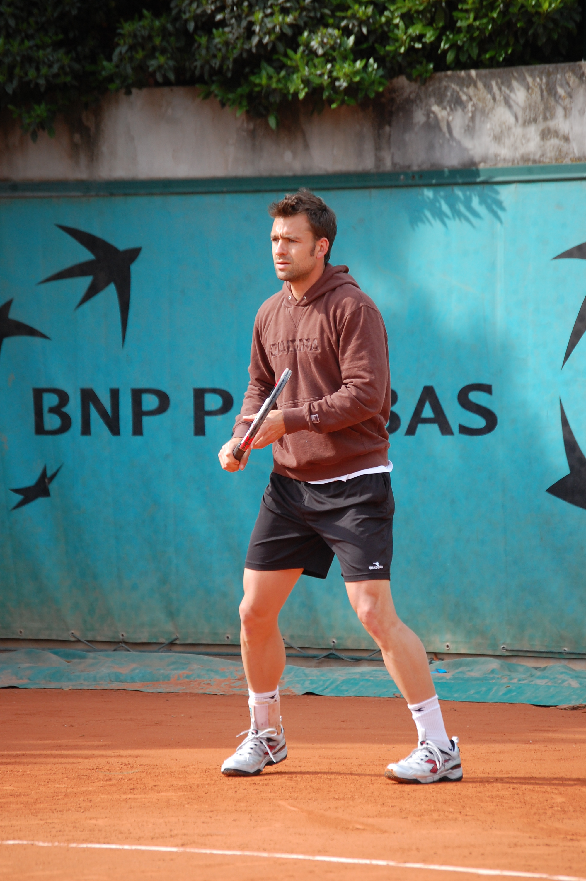 Nicolas Kiefer training in Roland Garros 2009